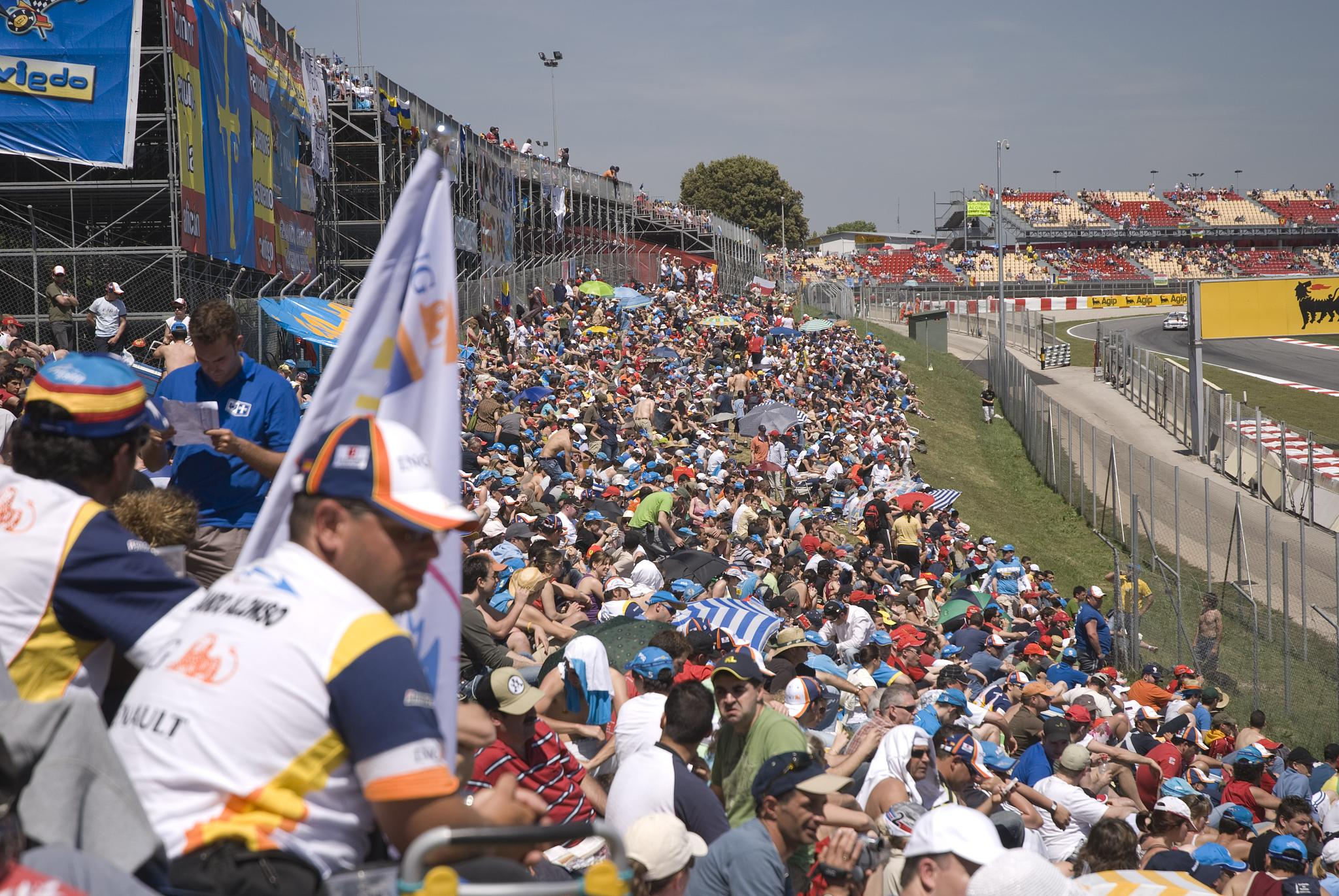 Renault supporters. Circuit de Catalunya, during the 2008 Formula One Spain Grand Prix.